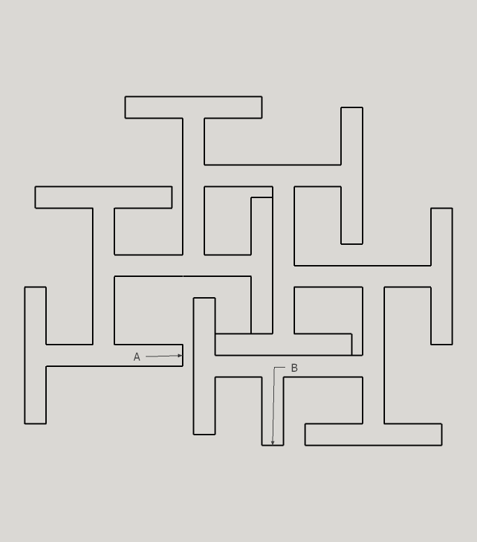 schematic